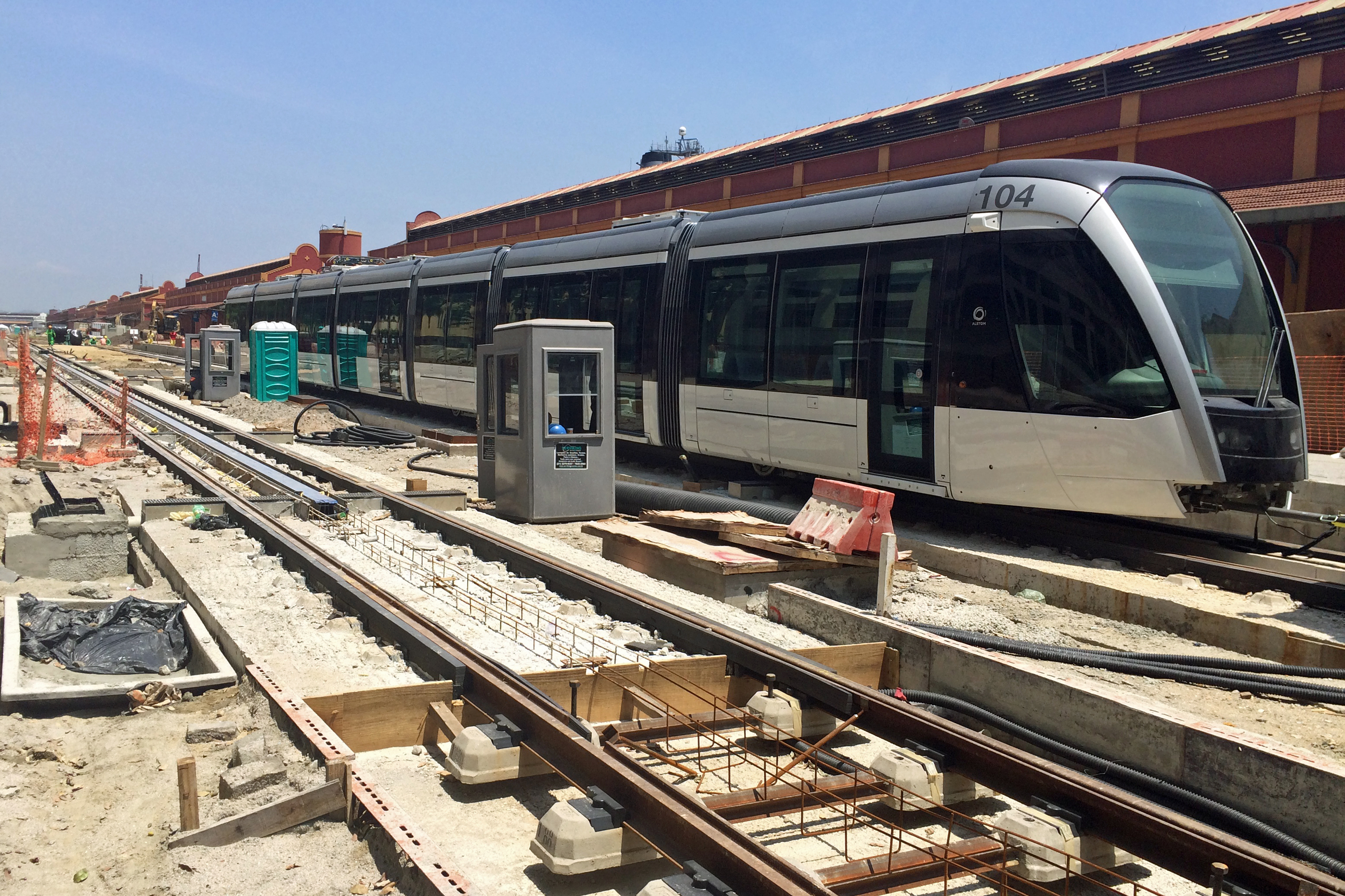 LRT Carioca, Rio de Janeiro city, Brazil. Tram being towed near Praça Mauá, track still under construction